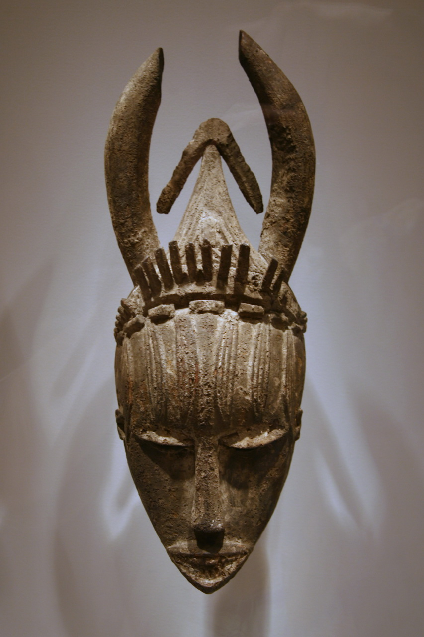 Mask, Urhobo peoples, Nigeria, Early to mid-20th century, Wood, pigment, encrustation Masks of this type are used in masquerades performed at festivals to honor Urhobo water spirits-which can be harmful or beneficial-that journey upriver from the Niger River delta. This mask represents a beneficial spirit associated with the ideal beauty of a young woman or bride. The mask's superstructure mimics the elaborately beaded, crowned and crested coiffure worn by Urhobo brides. The short vertical wood projections across the upper forehead represent the silver hairpins set into the lower parts of a young bride's crown. The gracefully curved horns projecting from the top of the head are described simply as horns or as embellishments of the coiffure. (National Museum of African Art)